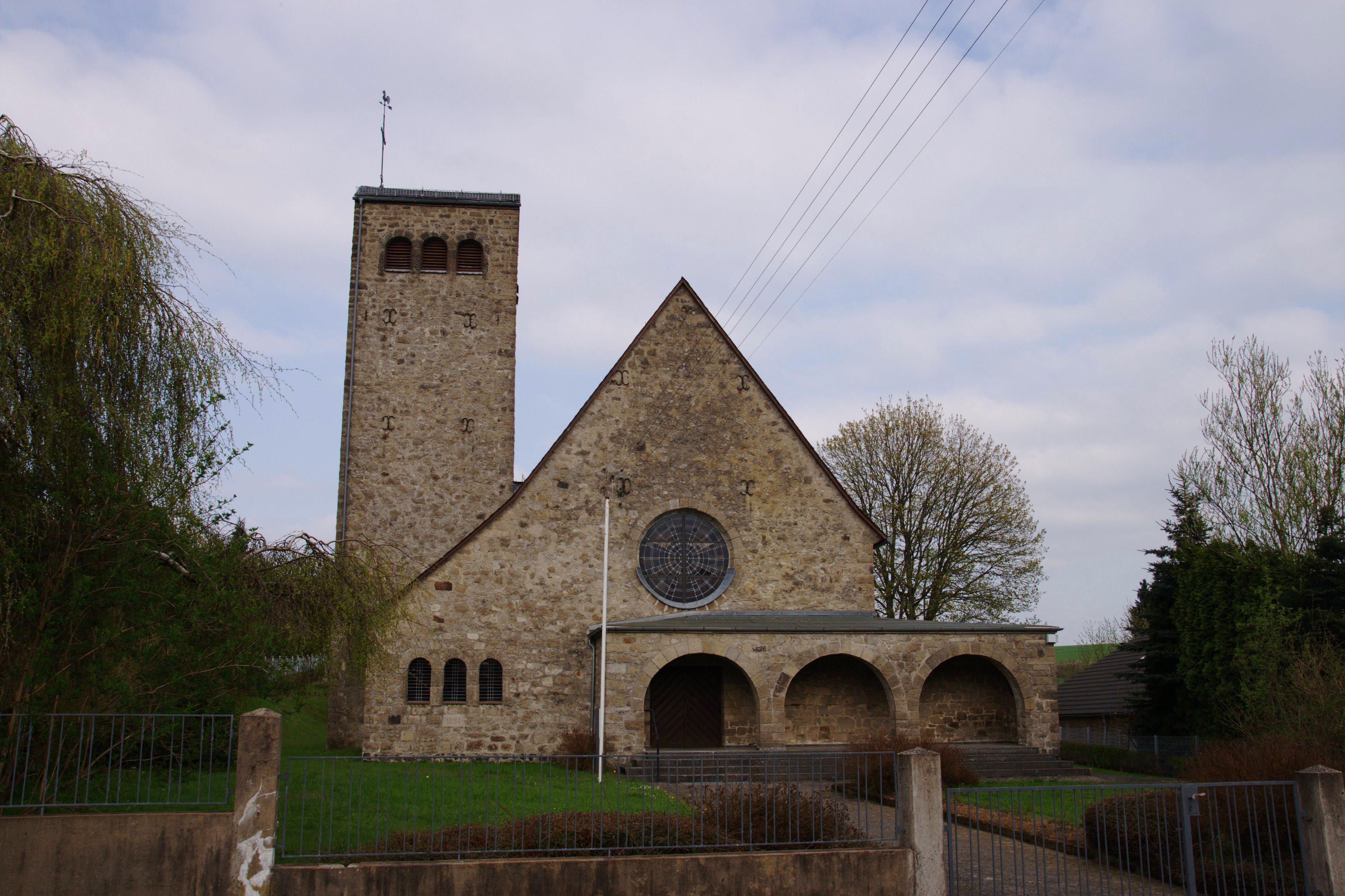 Village Kuhnhöfen, Westerwald, Germany. Catholic church, errected in 1934